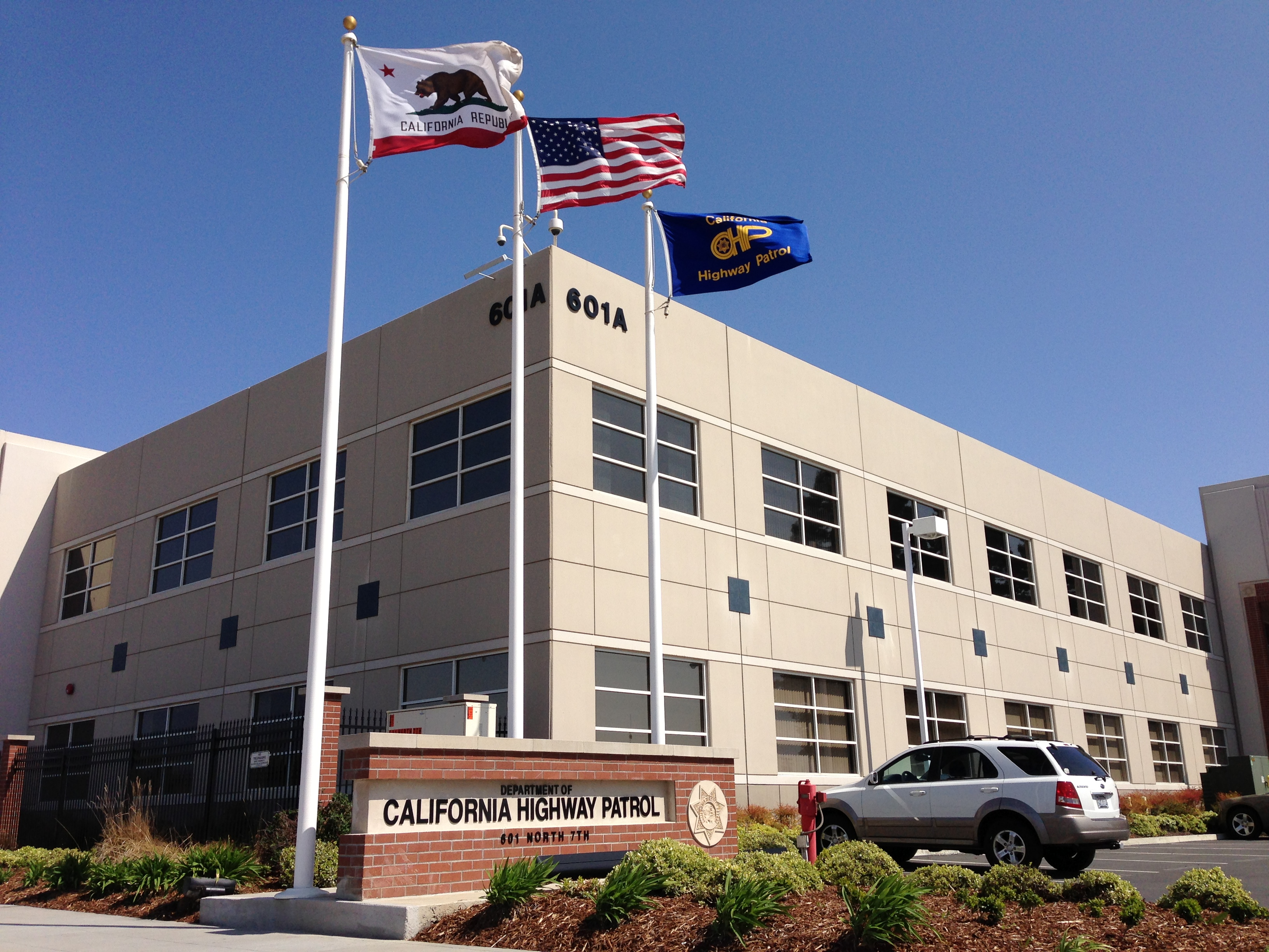 This is the front of the California Highway Patrol Headquarters in Sacramento, CA.